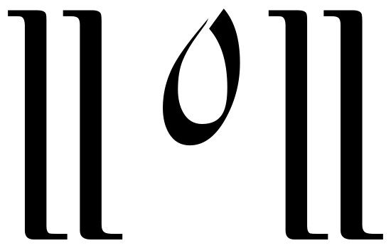 The 'pada guru' symbol